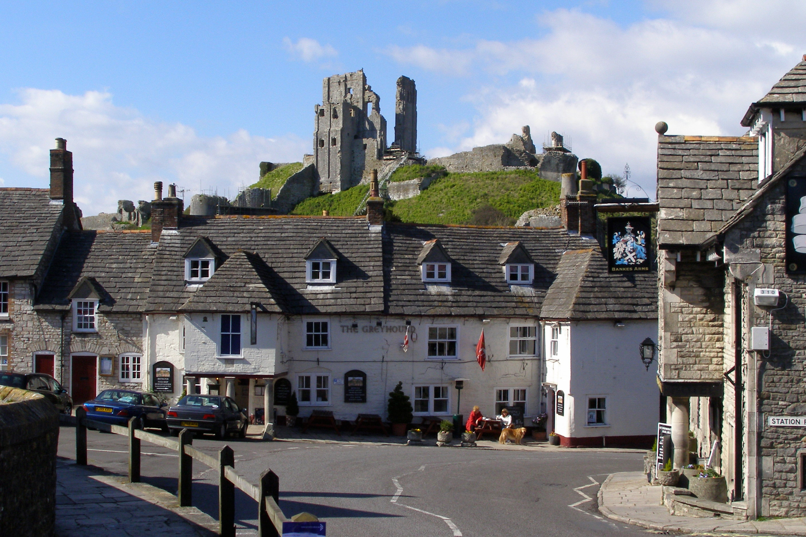 Corfe Castle and Greyhound Inn, Corfe Castle village, Dorset, England.